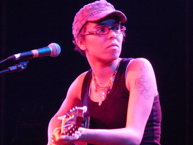 Brazilian singer Maria Gadú singing in Porto Alegre.